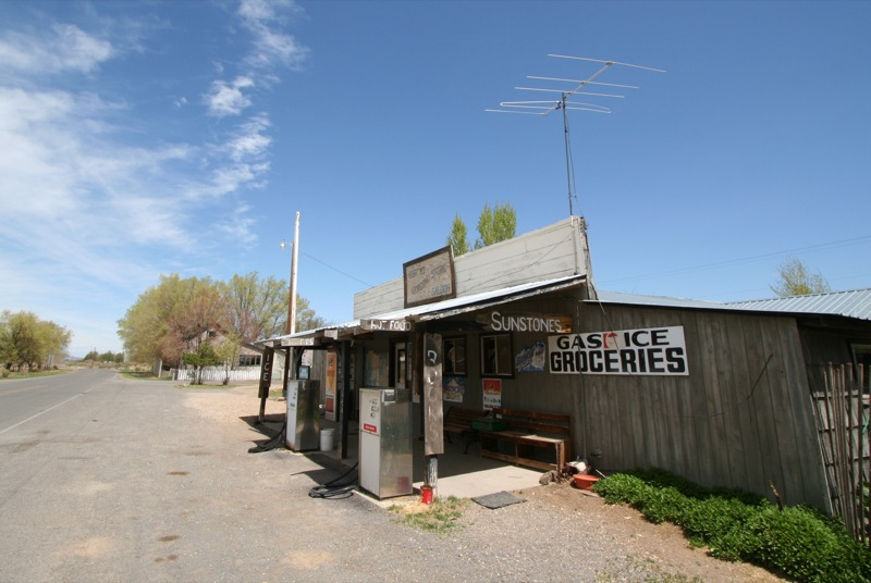 Gas station/grocery store in Plush, Oregon.